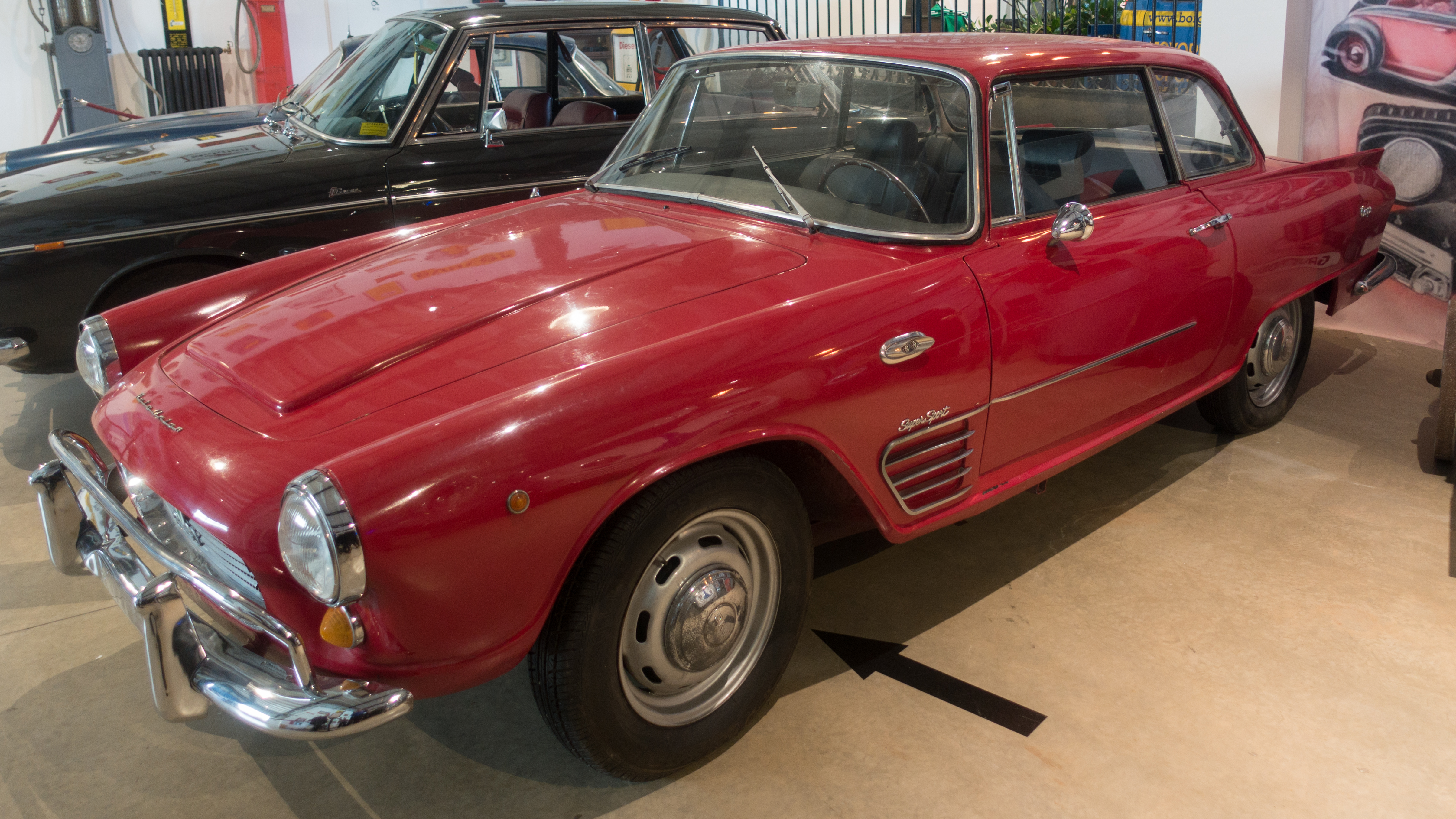 Auto Union 1000 Super Sport Coupé Fissore at Zylinderhaus Bernkastel-Kues